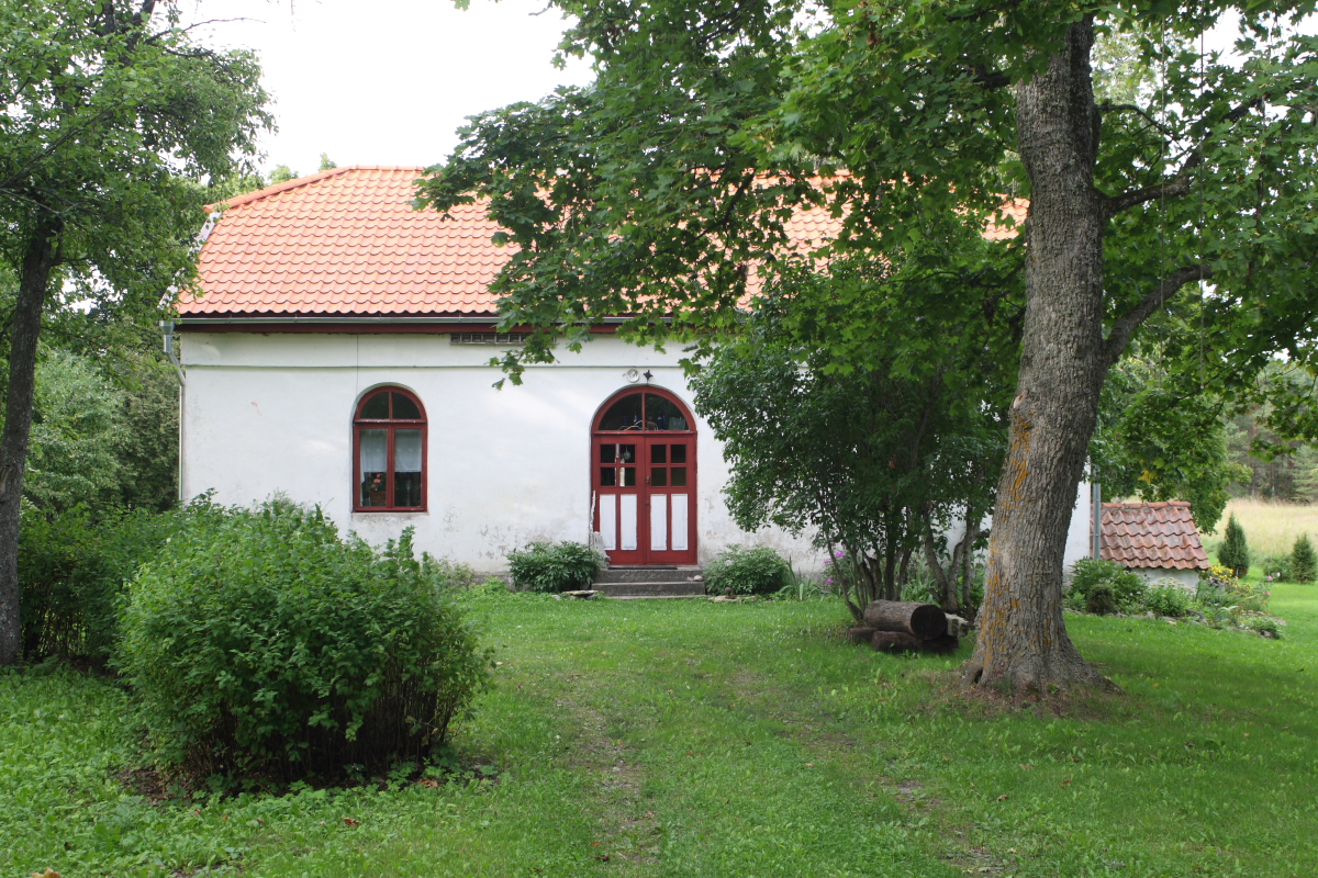 Puhtulaiu cattle manor, built 1857, now the guardian house of the biology station, known as the "Count's House"